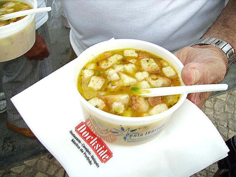 "The world's biggest soup - 2006 Guinness Record (Portimao, Algarve, Portugal)"